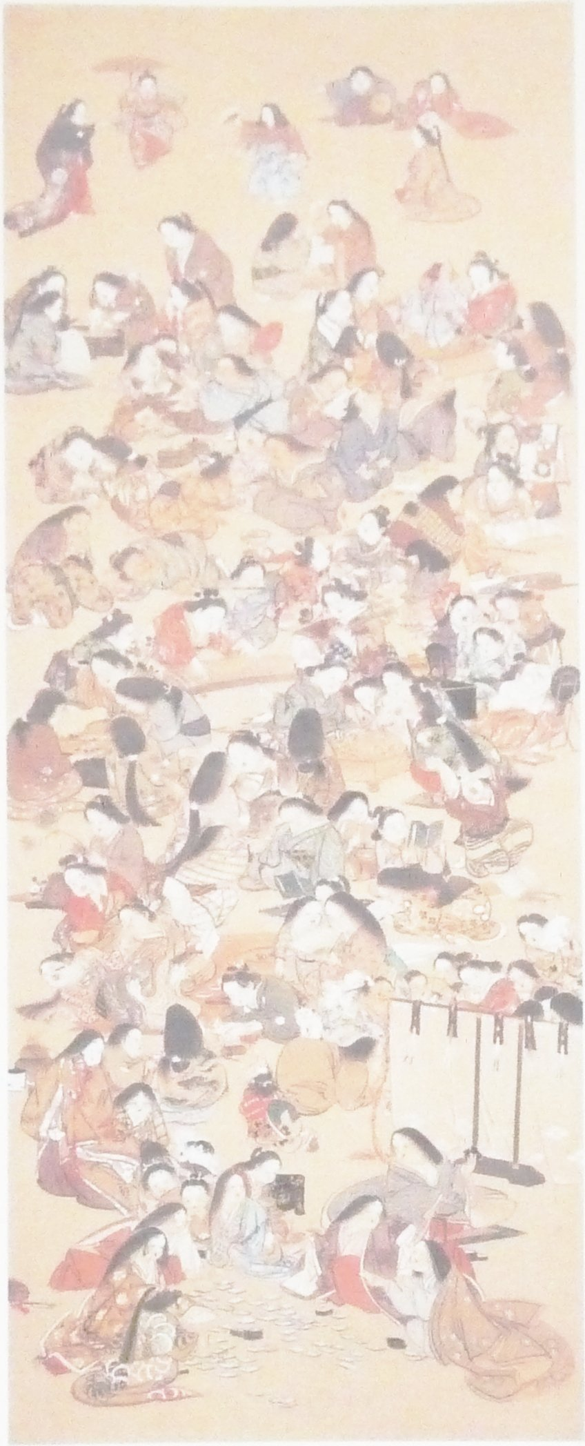 Kawanabe Kyosui(1868-1935) "Momofuku-zu" (A hundred )